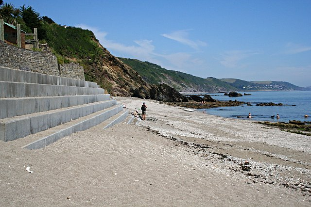 Plaidy Beach, Looe. This beach is almost deserted even though it is a hot July day. This is probably because there are no parking facilities nearby and it is quite a long walk from the centre of Looe. It is one of the few beaches on which dogs are allowed in the Summer.